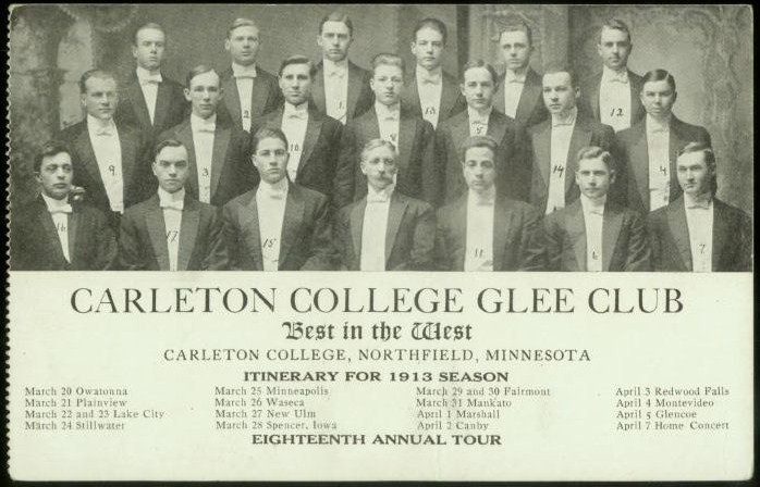 Postcard picture of Carleton College Glee Club, Northfield, Minnesota